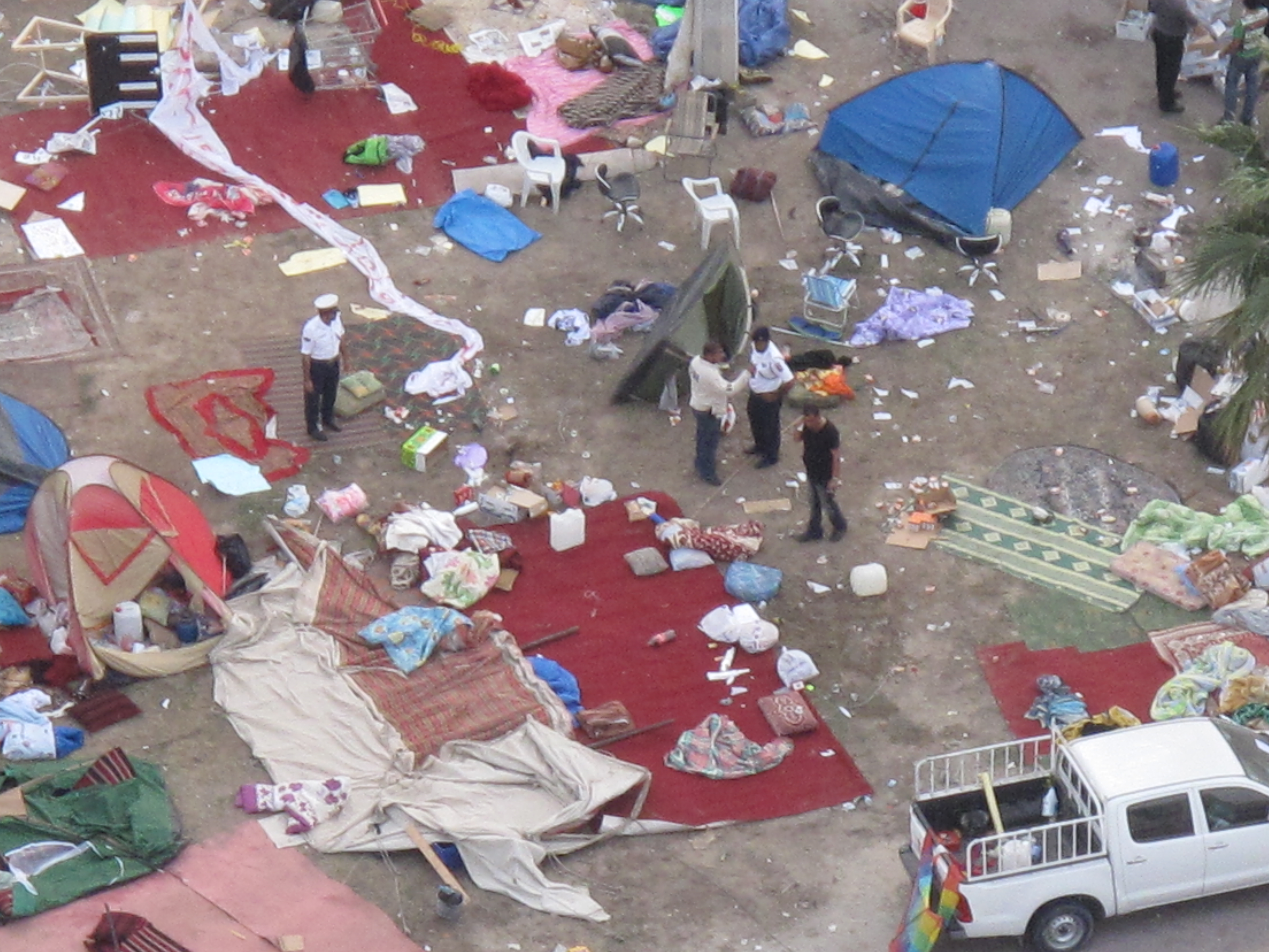 Police standing in Pearl roundabout after it was cleared from protesters